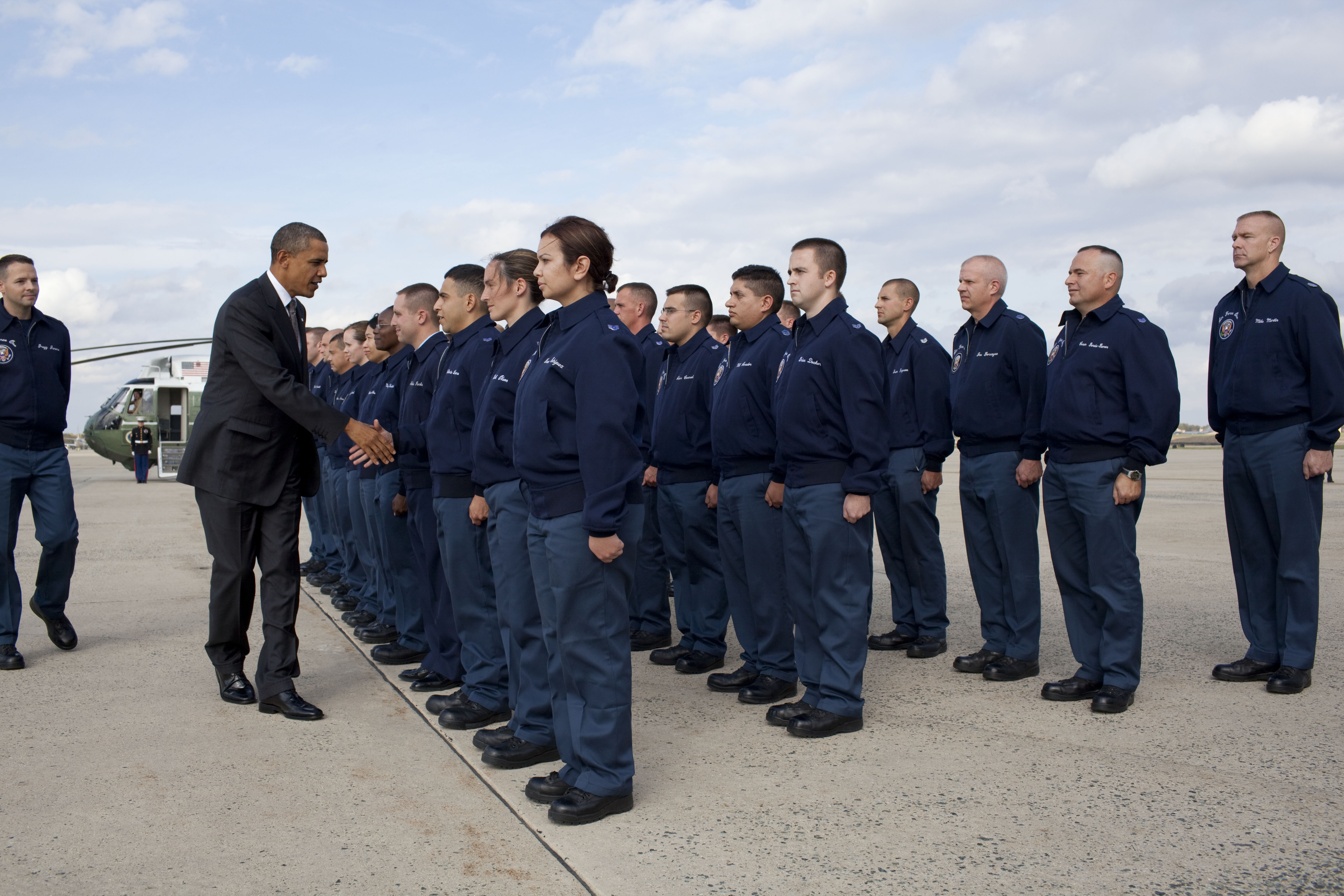 President Barack Obama greets personnel at Joint Base Andrews, Md., before boarding the newly refurbished Air Force One, Oct. 25, 2010. (Official White House Photo by Pete Souza) This official White House photograph is in the public domain from a copyright perspective, so while restrictions such as personality or privacy rights may apply, in general, manipulations are allowed.